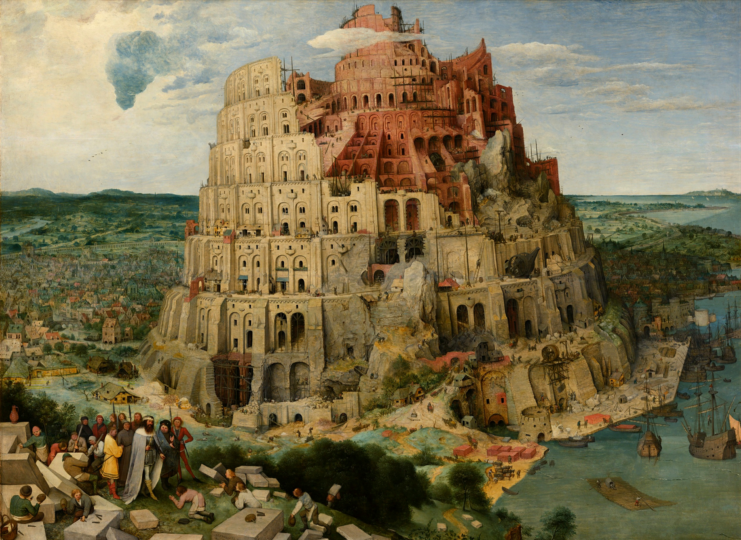 The Tower of Babel. Bruegel painted three versions of the Tower of Babel. One is kept in the Museum Boijmans Van Beuningen in Rotterdam (see Category:The Tower of Babel (Rotterdam)), the second in the Kunsthistorisches Museum in Vienna, while the location of the third version (a miniature on ivory) is unknown.